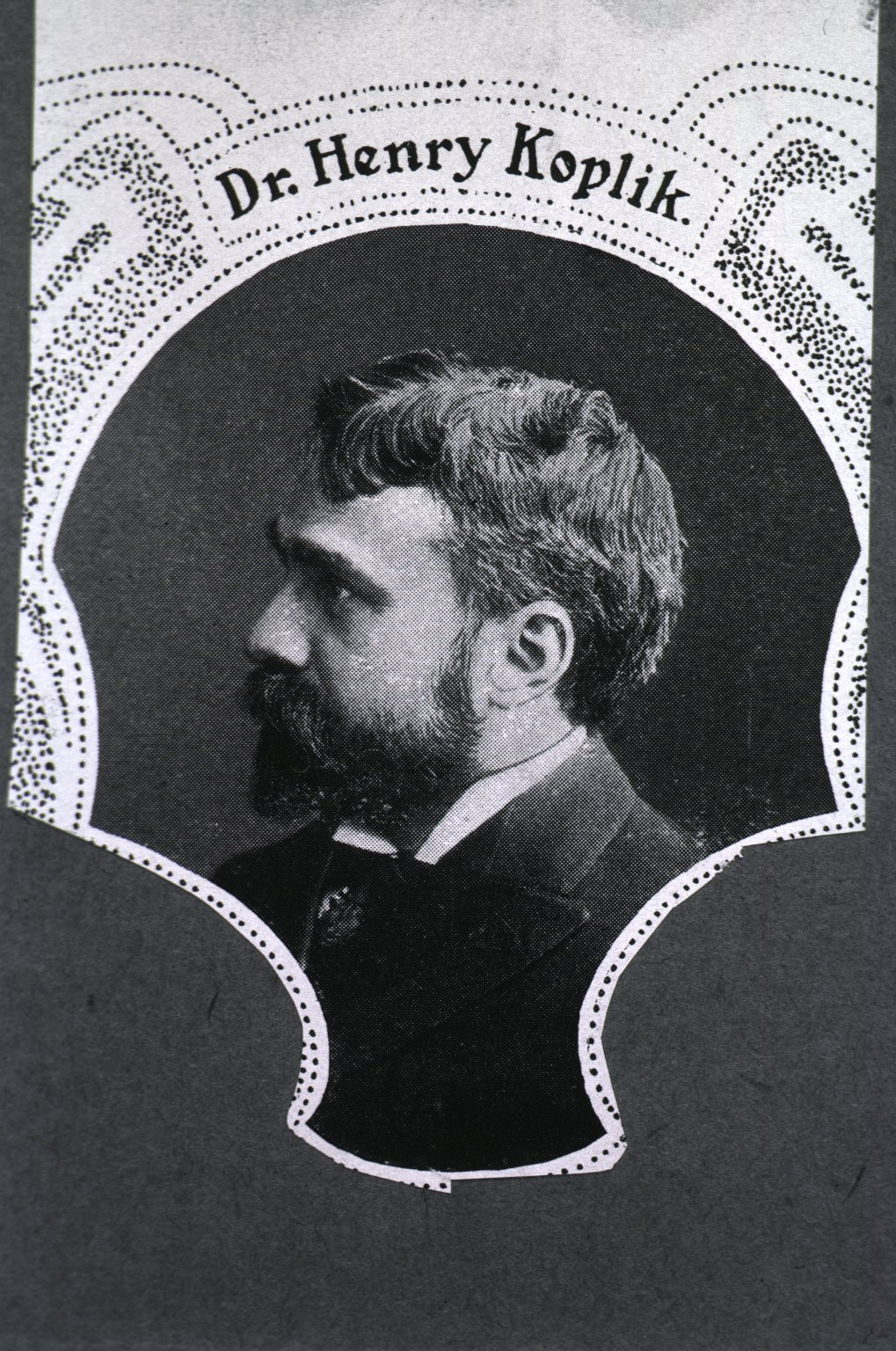 Dr. Henry Koplik